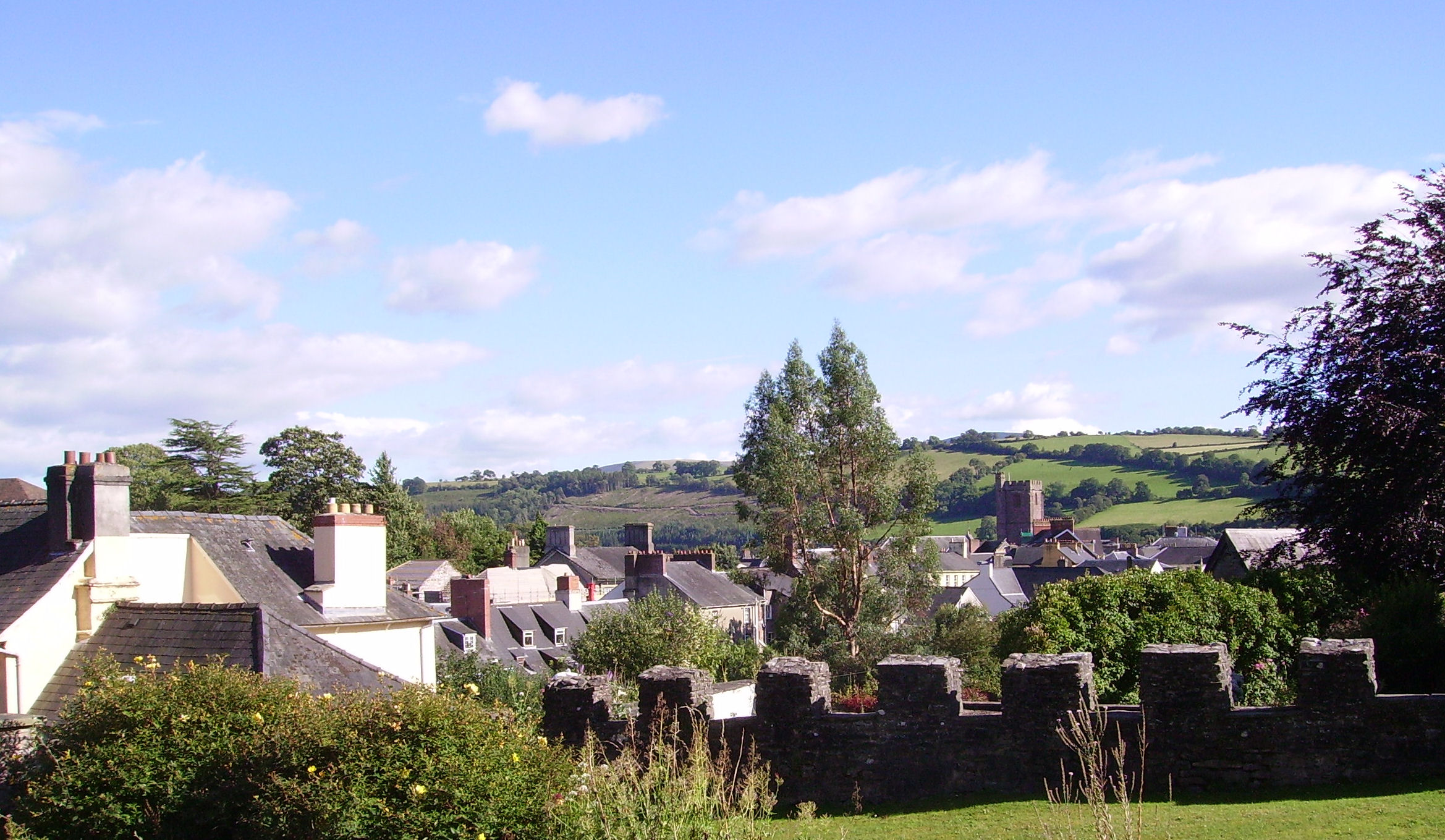 view of Brecon in Wales